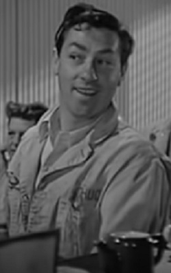 Scene from the 1950 American film Quicksand.